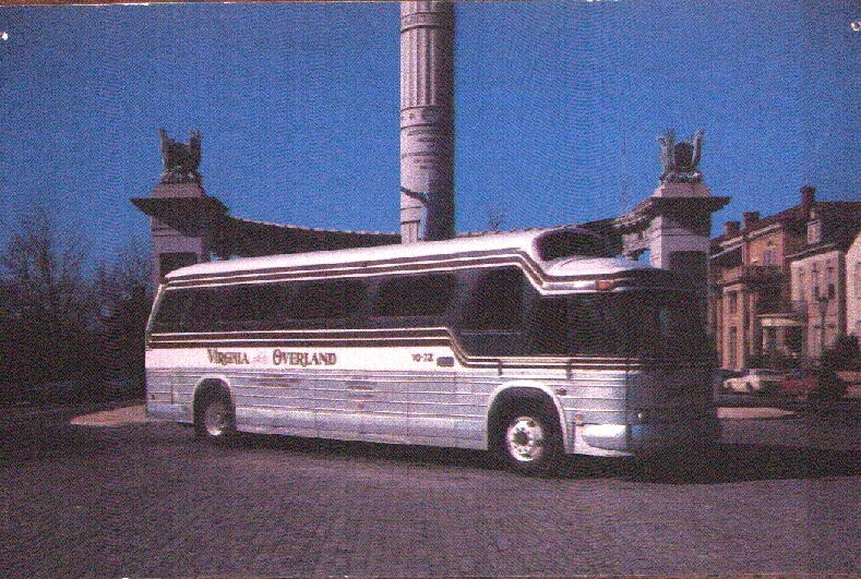 1972 General Motors model P8M4108A GM Buffalo bus Motorcoach Unit VO-72 of Virginia Overland Transportation Co., photographed in Richmond, 1982.